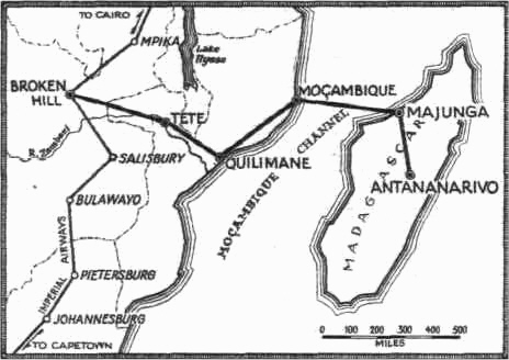 Route map of Régie Malgache Malagasy: Zotra Antananarivo-Broken Hill izay nataon'ny zotram-piaramanidina Régie Malgache (1934-1937)